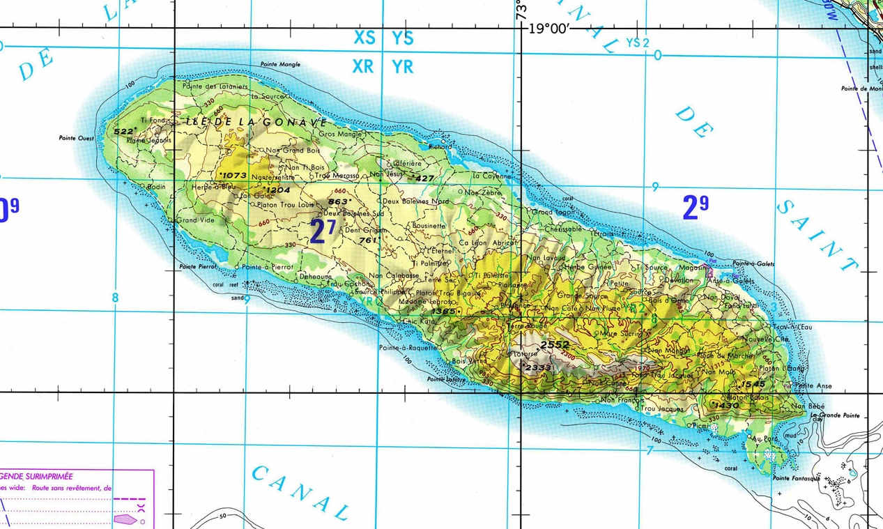 Aeronautical chart of southern Haiti, including Gonave Island